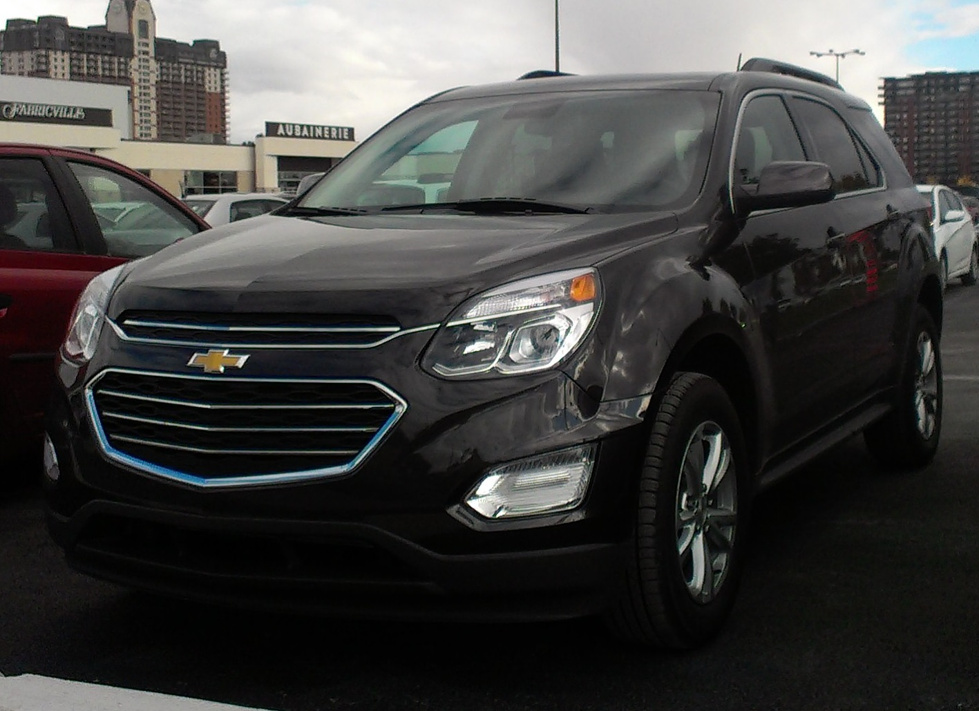 2016 Chevrolet Equinox photographed in Laval, Quebec, Canada.